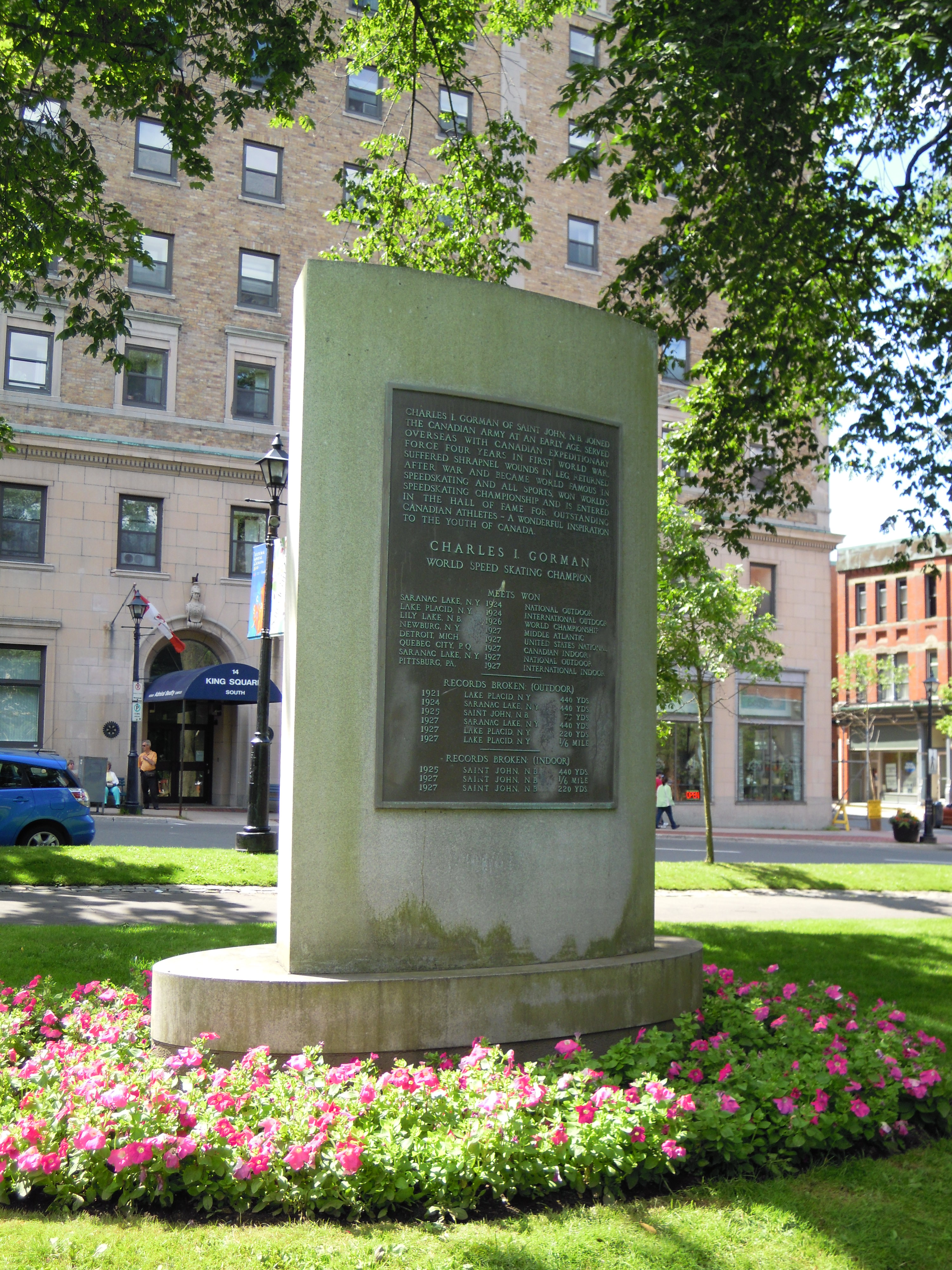 Monument to Charles Gorman, World champion speedskater, in King's Square, Saint John, New Brunswick, Canada.